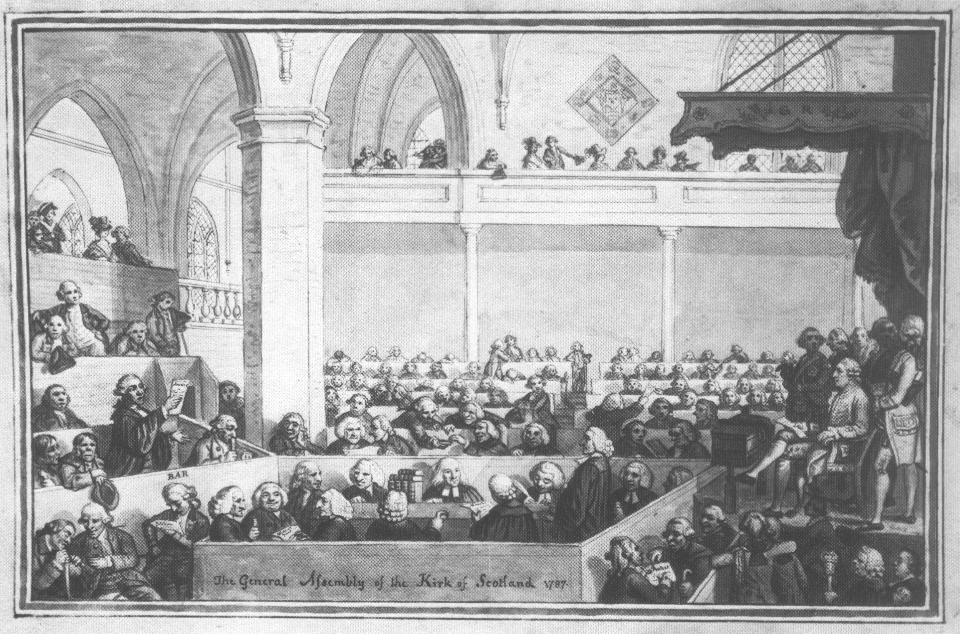 The General Assemby of the Kirk of Scotland 1787 by David Allan. The chair of honour is occupied by the Earl of Dalhousie and the speaker at the bar is the advocate James Boswell.